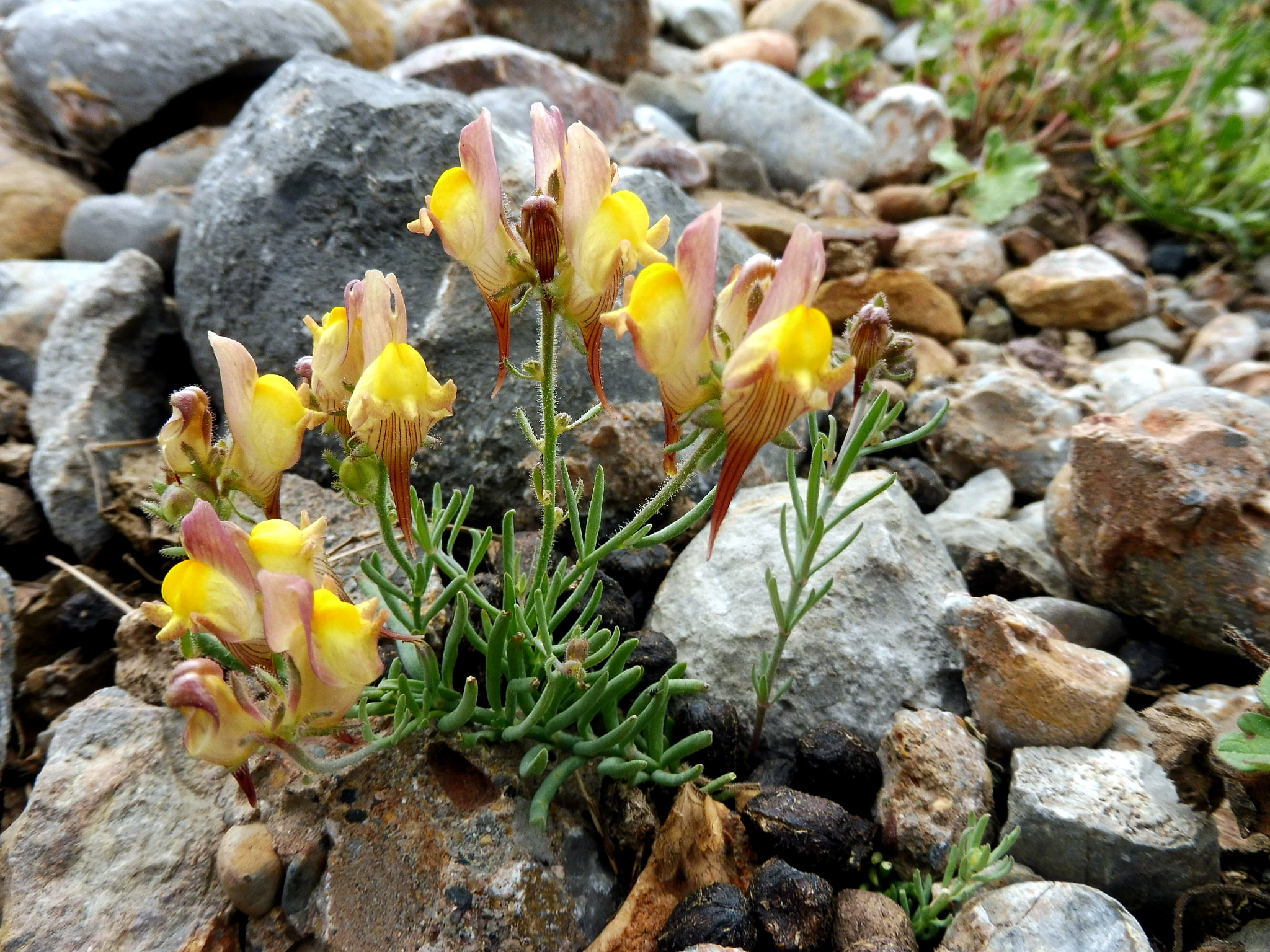 Linaria supina. In serrat de Sòbol (Solsonès -Catalunya). To 1.270 m altitude This is a a photo of a natural area in Catalonia, Spain, with id: ES510197